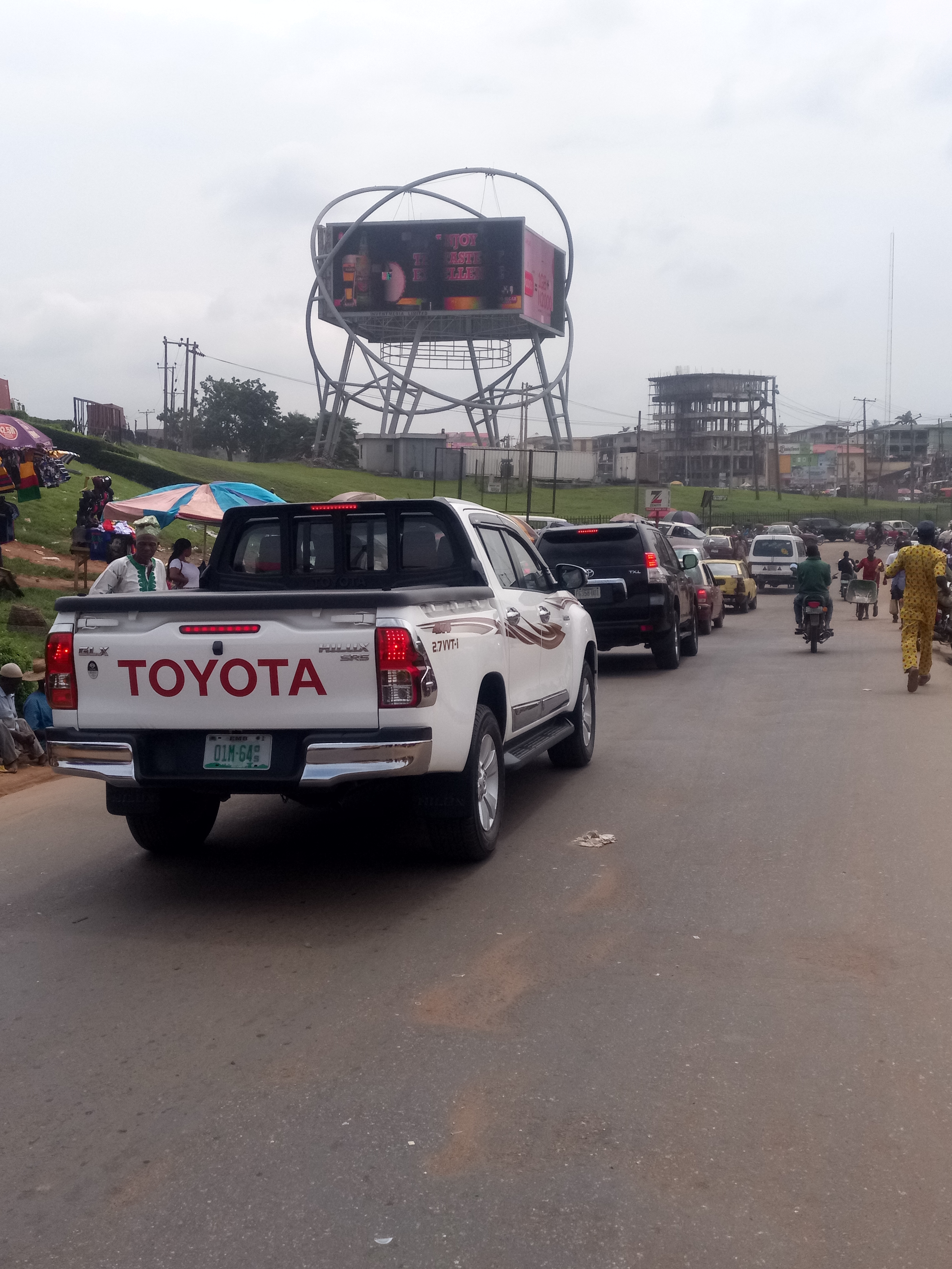 Iwo Road1, Ibadan, Oyo State This media shows a cultural heritage object of Nigeria with the Wikidata-ID: d: {1 }| {1 }